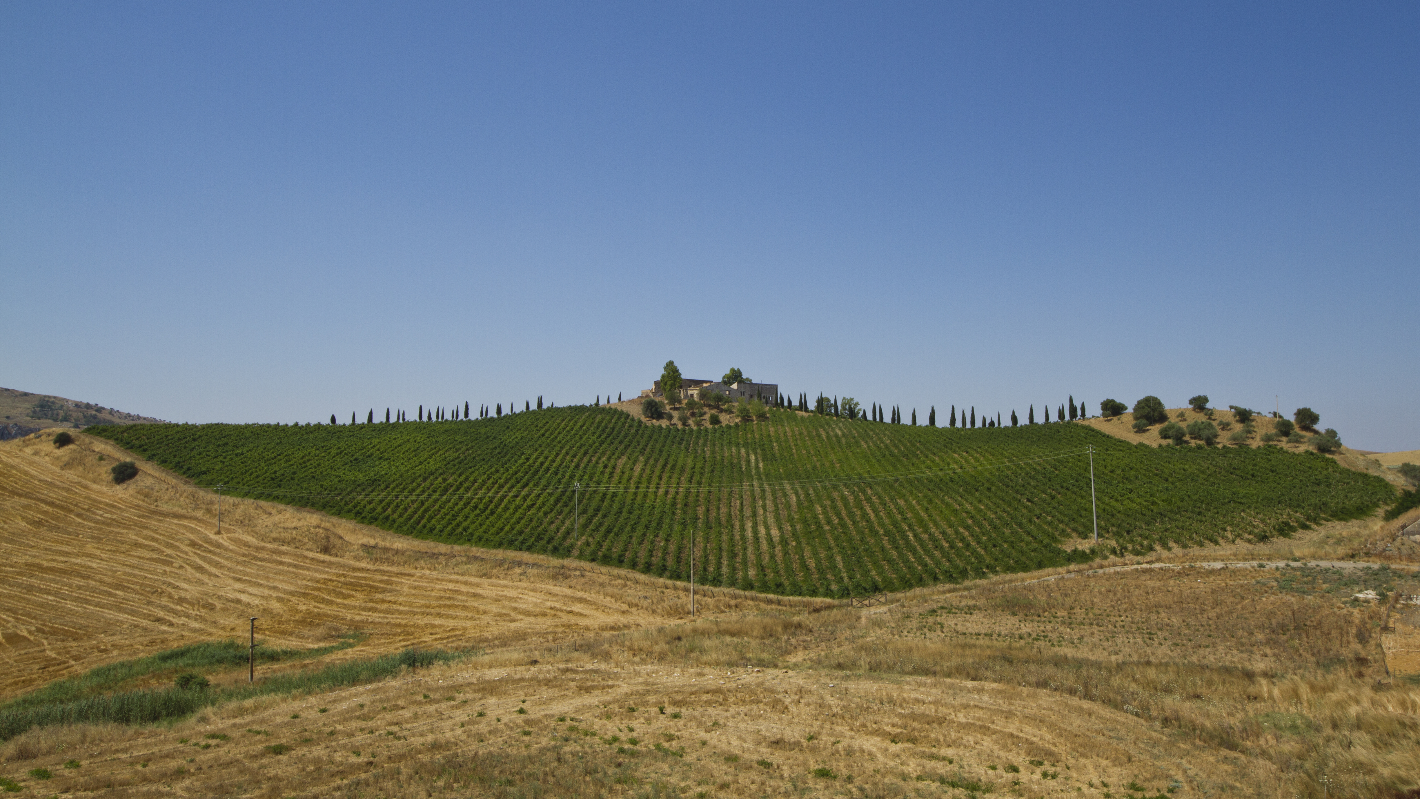 Monreale vinery, Palermo, Sicily, Italy